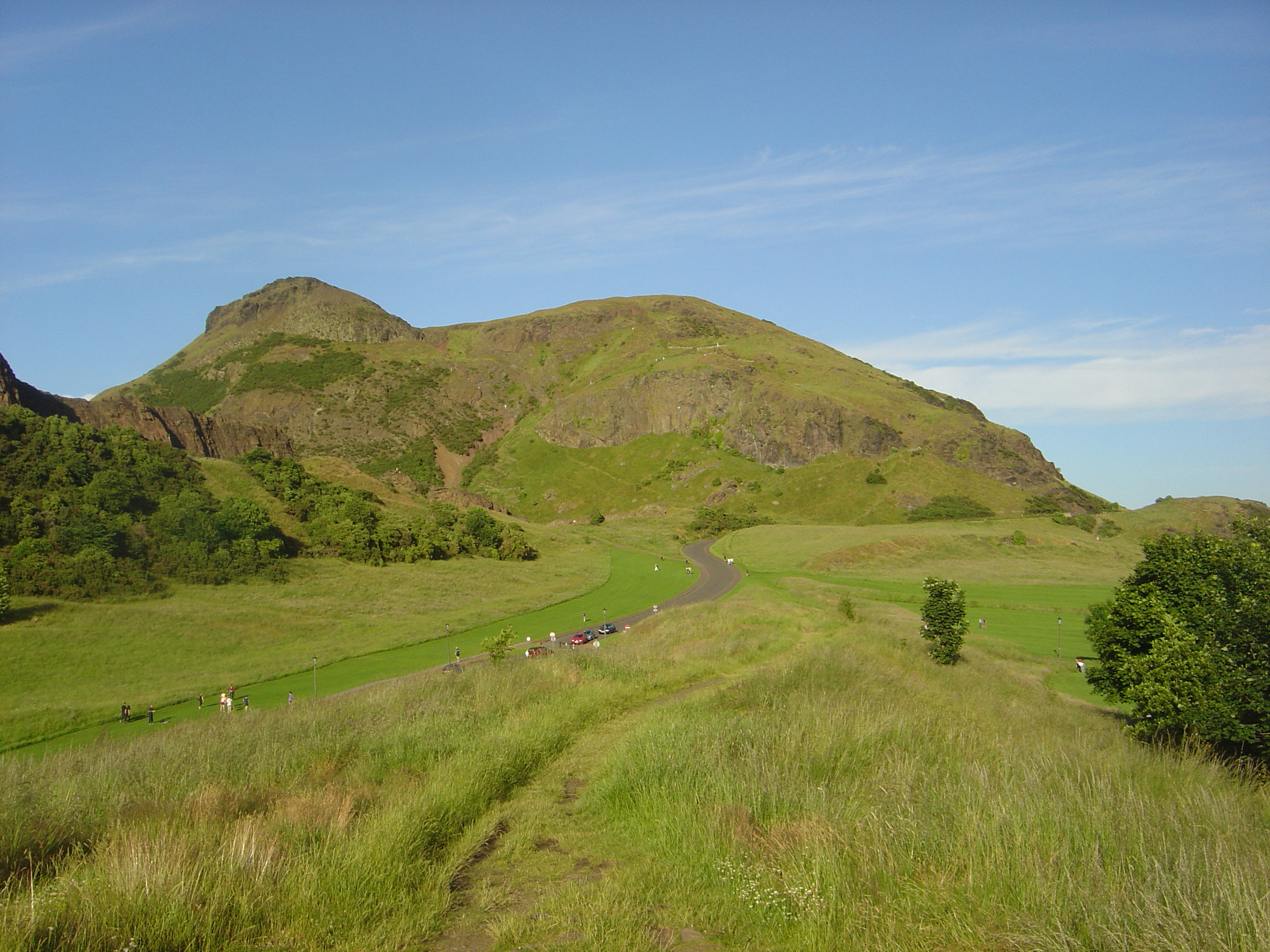 Arthur's Seat, Holyrood Park, Edinburgh